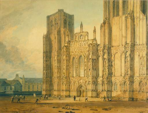 West Front of Wells Cathedral c.1795 by Joseph Mallord William Turner. Watercolour on paper